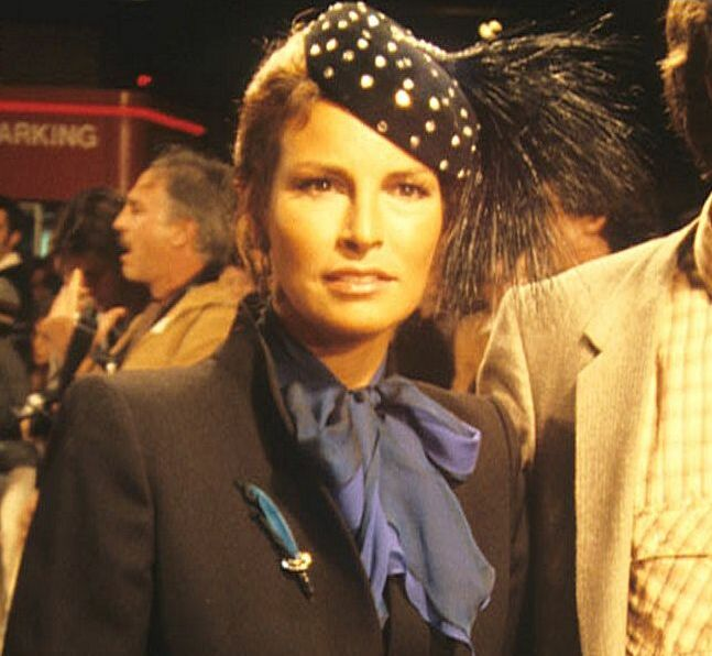 Raquel Welch arrive at the premiere of Midler's movie, THE ROSE, 1979.